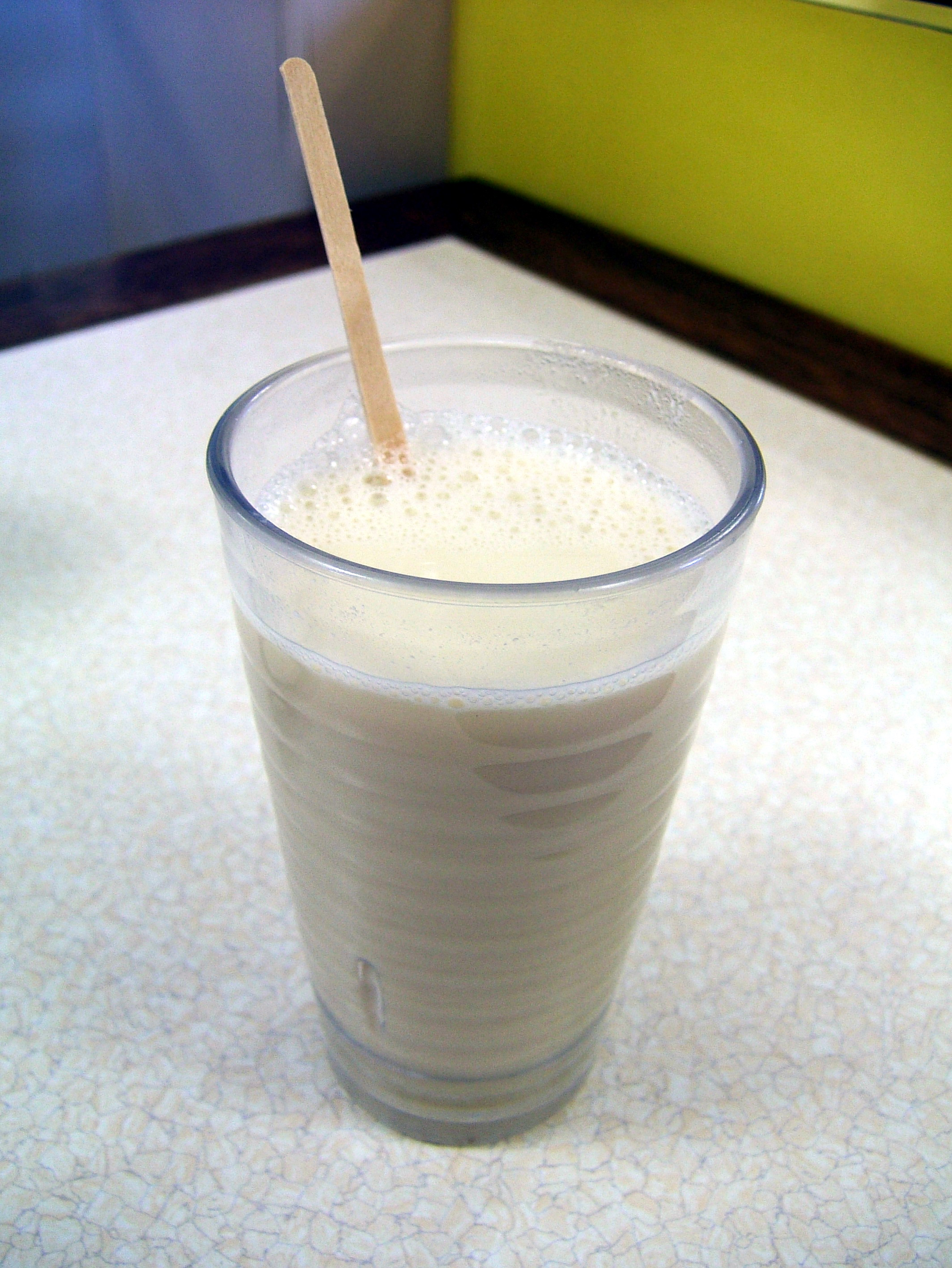 Soy milk in Beijing, China